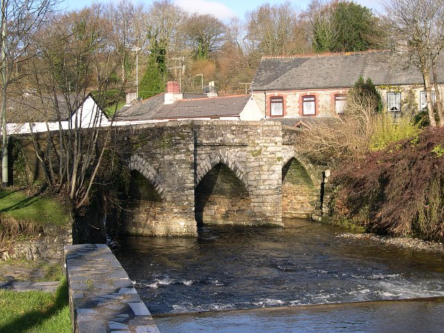 Medieval bridge over the River Walkham at Horrabridge, Devon